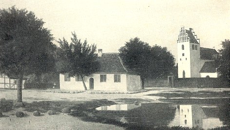 Lille Heddinge Rytterskole and Church in Lille Heddinge, Denmark